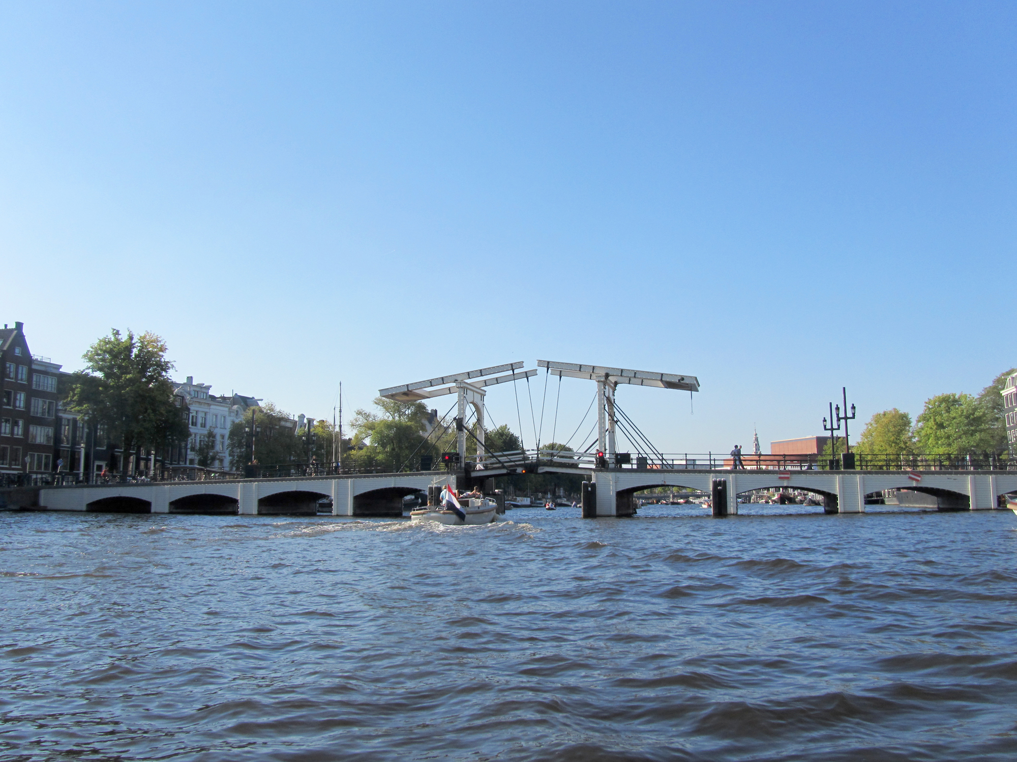 The Magere Brug across the Amstel river in Amsterdam, seen from the south